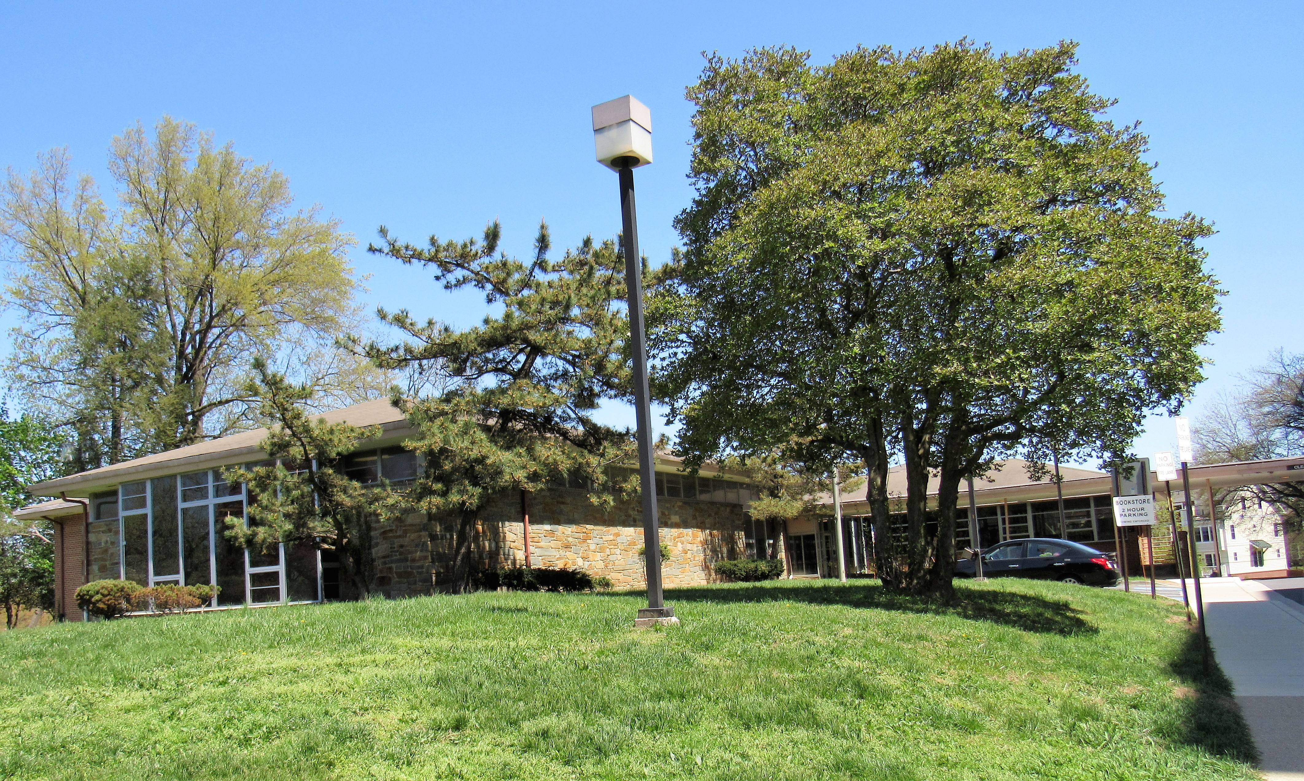 The Silver Spring Library's 1957 building on Colesville Road in Silver Spring, Maryland. It is now used as the Friends of the Library Bookstore.